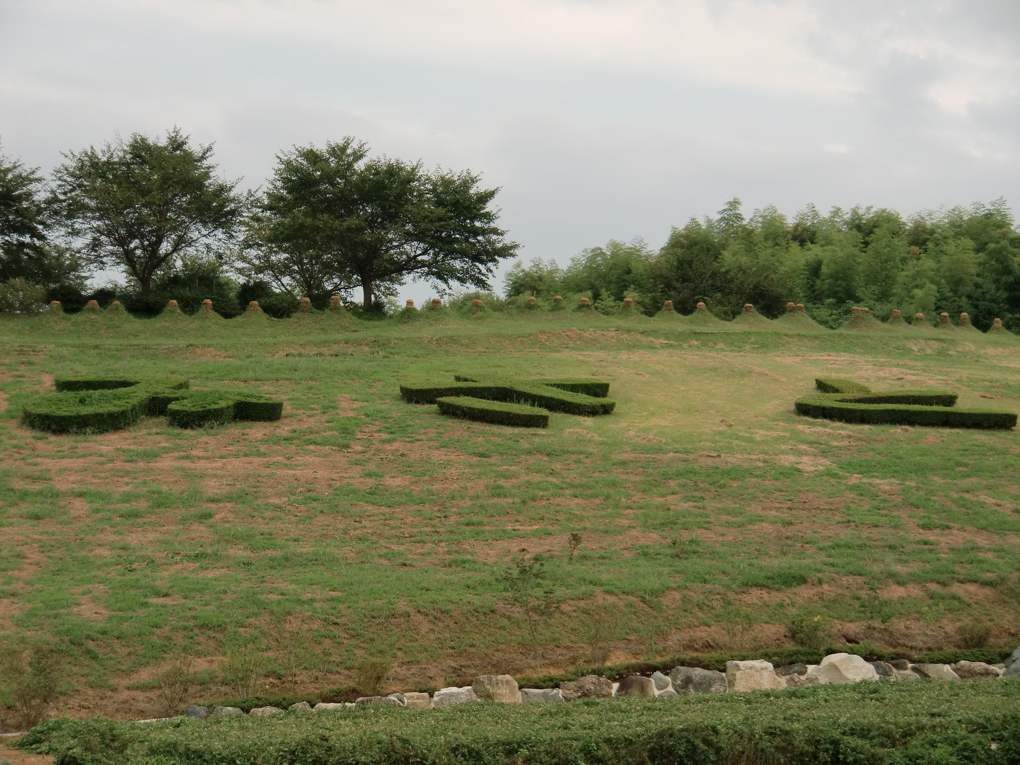 Earth mounds used for Hyakuyatto festival in Inomata. Hyakuyatto means '108 lights' in Japanese. During the night festival, torches are lightened on each mounds.